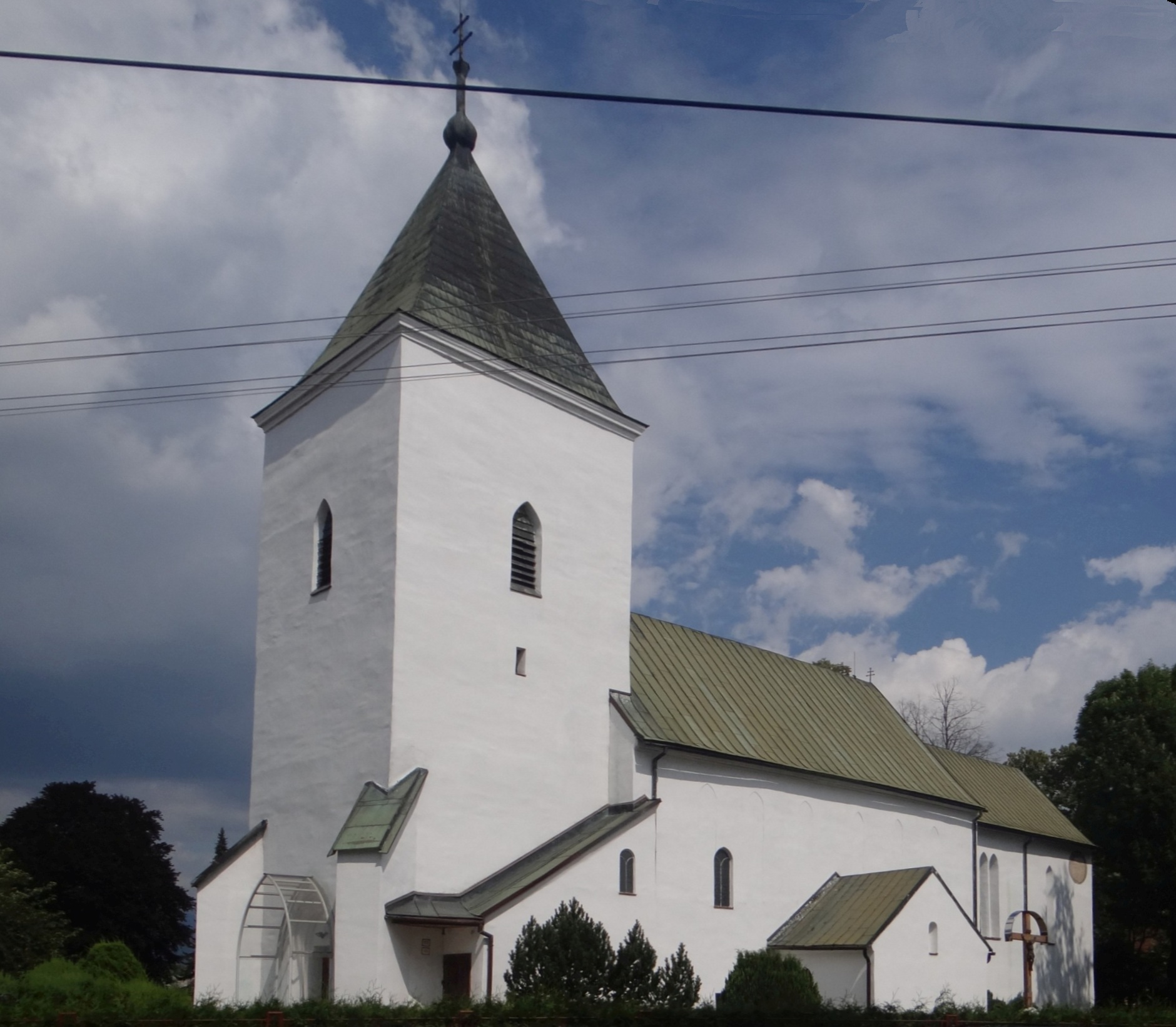 Sučany. Catolic church